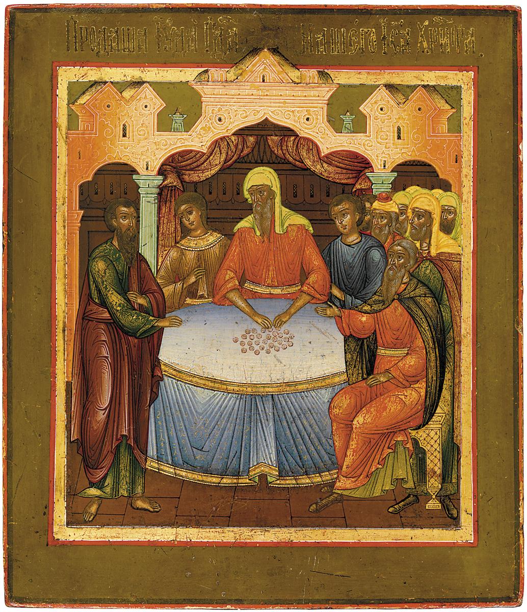 AN EXTREMELY RARE ICON OF JUDAS ISCARIOT RECEIVING THE THIRTY PIECES OF SILVER MOSCOW OR YAROSLAVL, OLD BELIEVERS' WORKSHOP, END OF THE 19TH CENTURY, . 31.2 by 26.5 cm